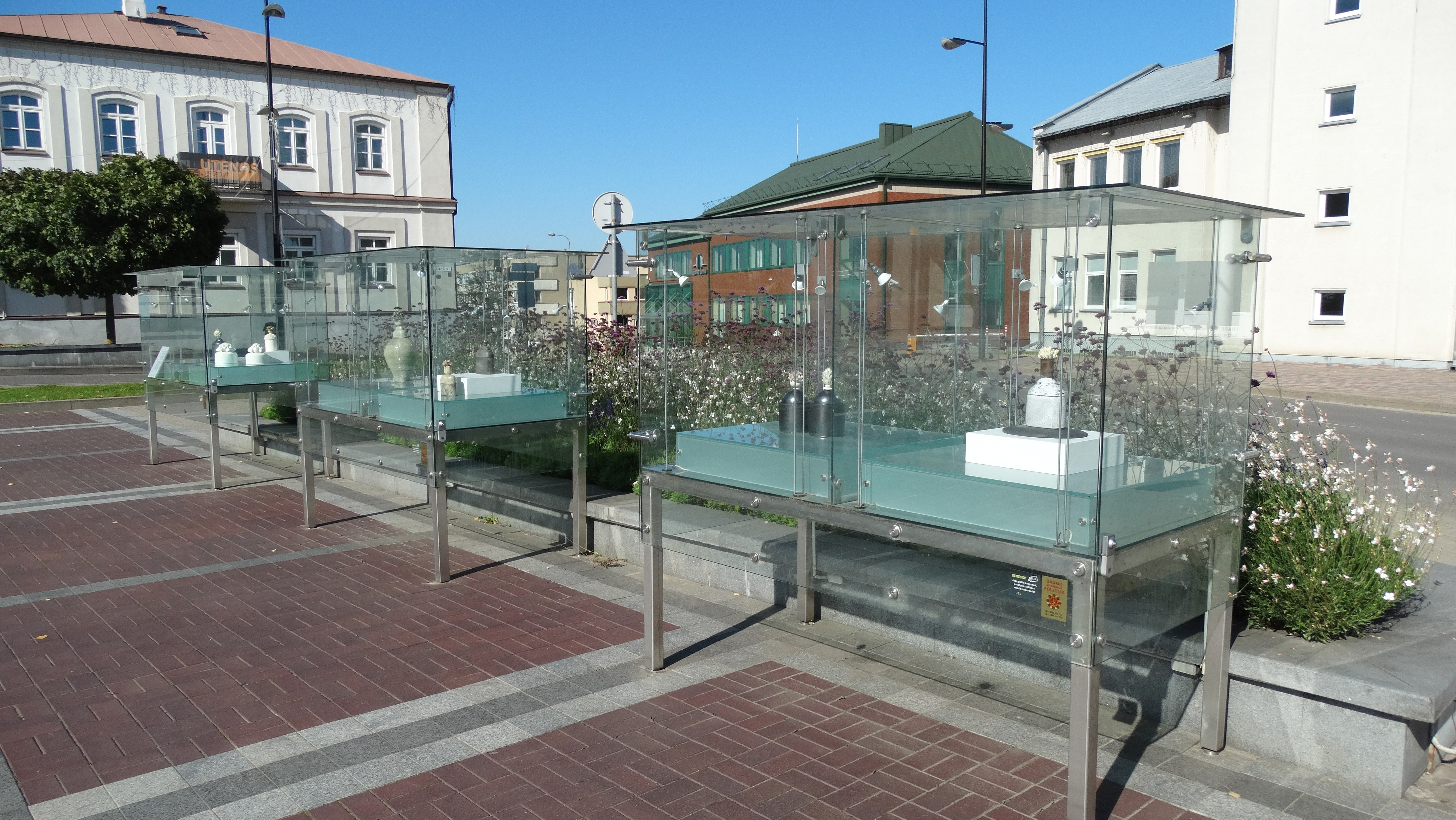 Glass showcase in the square, Utena, Lithuania